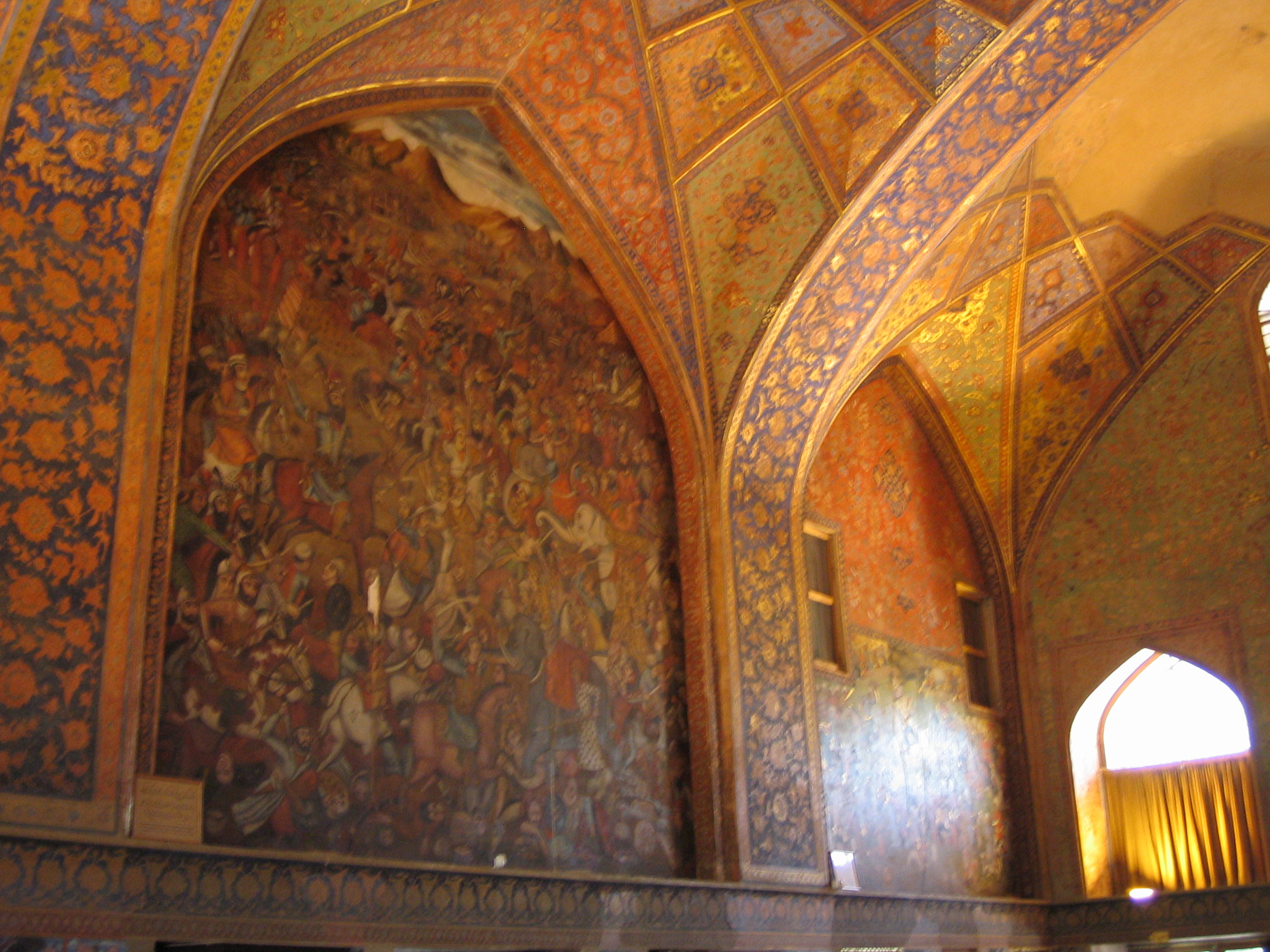 Chehel Sotoun Palace. Banquet Hall paintings in niches.